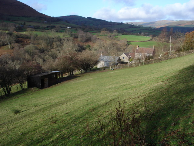 Llwynon, The Vale of Grwyney In the background at the head of the valley is Waun Fach and Pen y Gadair Fawr, the highest point in the Black Mountains. Walking the high ground surrounding the Vale of Grwyney makes an excellent long circular walk.